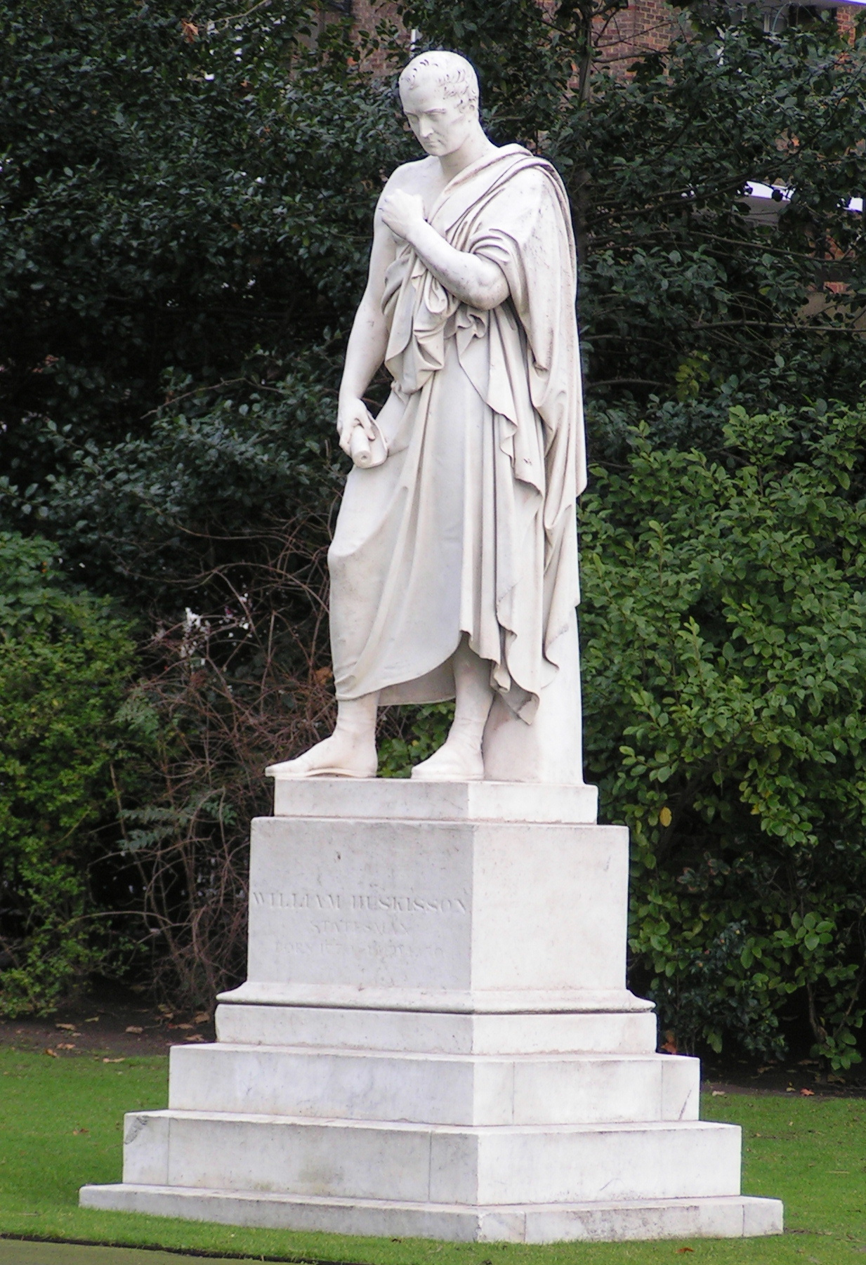 Statue of William Huskisson by John Gibson in Pimlico Gardens, London. Photographed by James Gray, 8th February 2006.